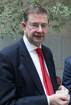 Éamon Ó Cuív clutching a cup